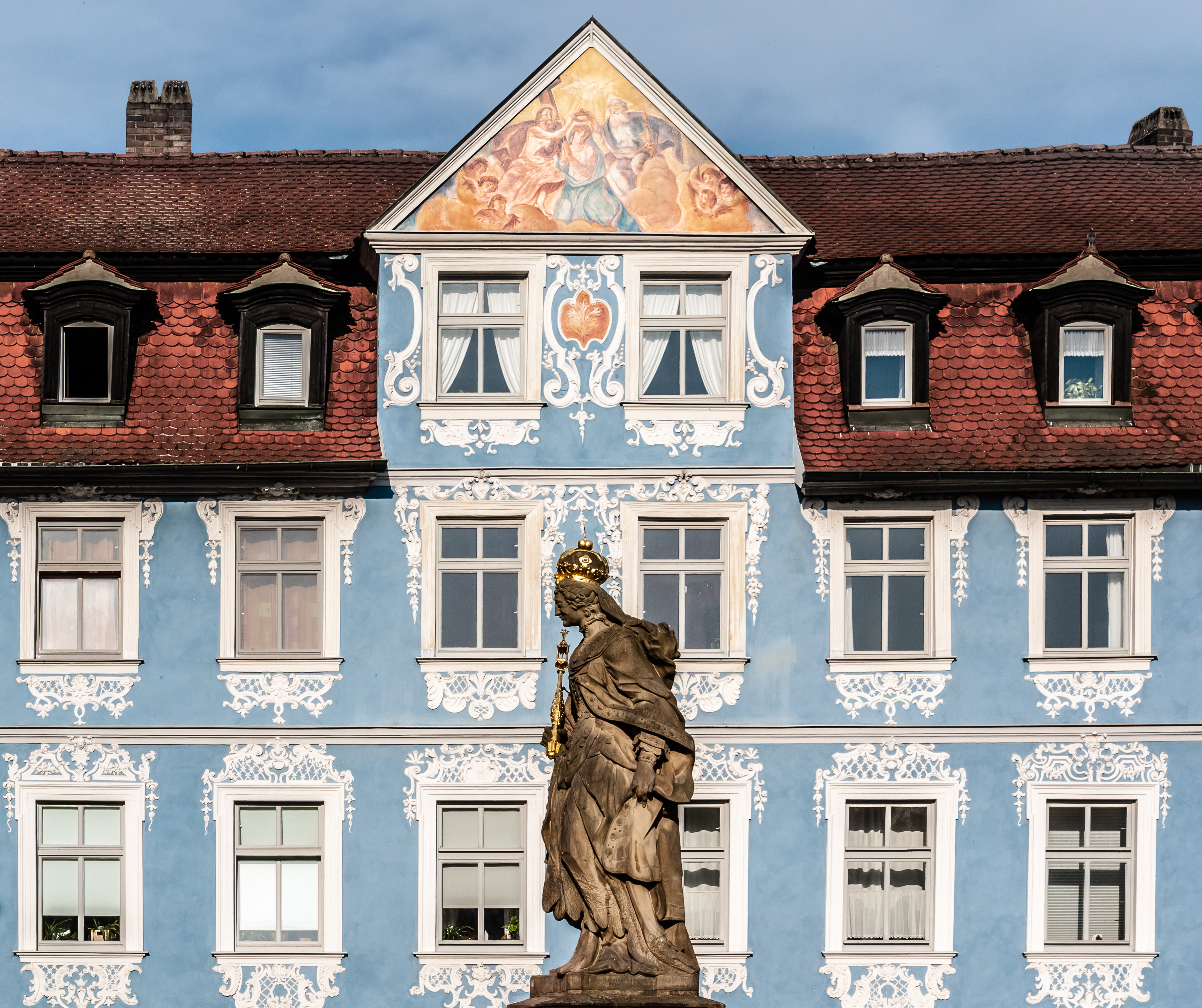 Blue house with Kunigunden statue at the lower bridge in Bamberg